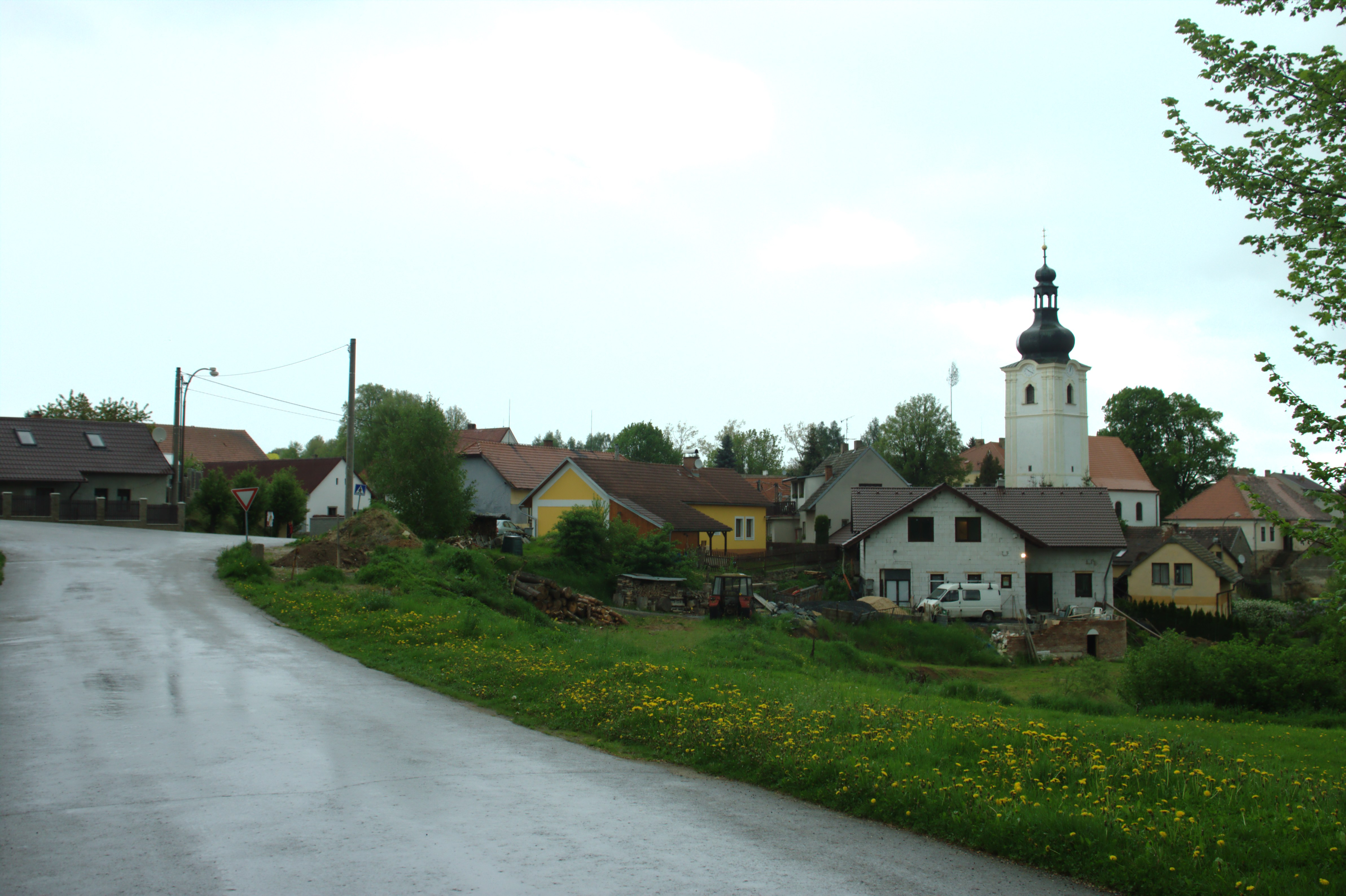 View of the town of Vranov, Benešov District, Central Bohemian Region, CZ